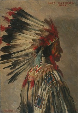 Chief Blue Horse,"Sunka Wakan To, by E.A. Burbank, 1898. Other information No.